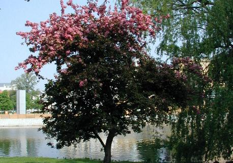 Malus eleyi flowering in Schwerin, Germany.